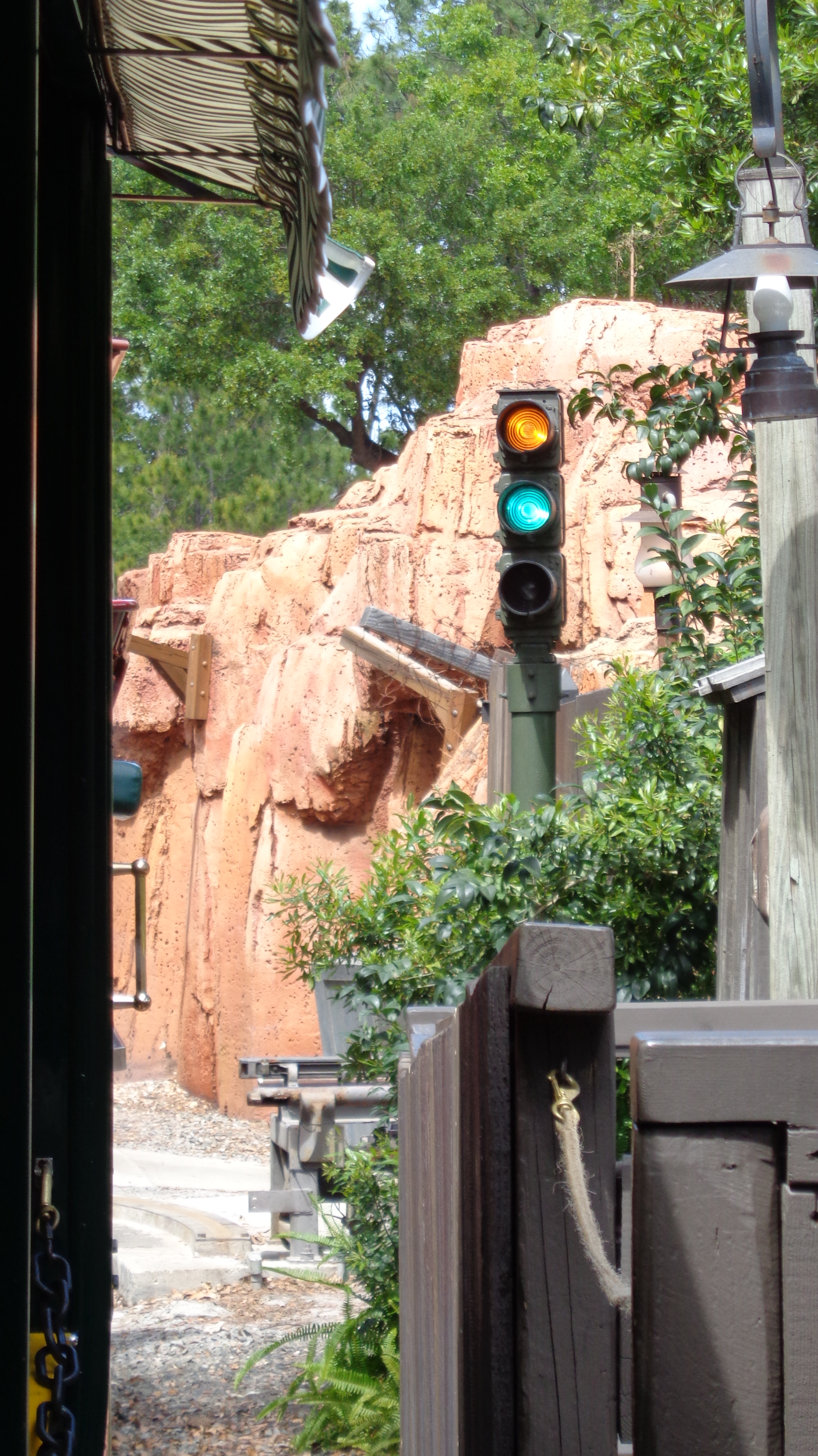 The block signal light at Frontierland Station Station in Magic Kingdom. A section of the track for the Big Thunder Mountain Railroad attraction is visible in the background. It connects to a swing bridge that swings over the Walt Disney World Railroad's track, allowing Big Thunder Mountain Railroad trains to travel to their maintenance facility on the opposite side.